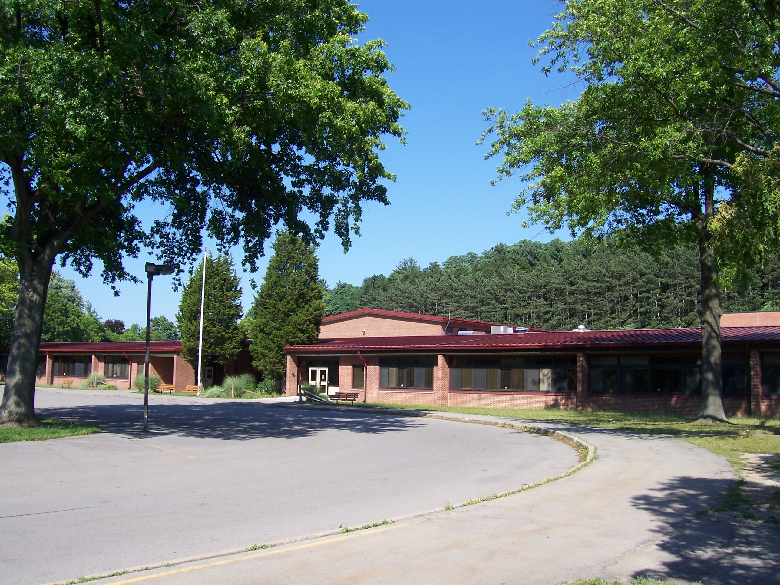 Johanna Perrin Middle School in Fairport, New York